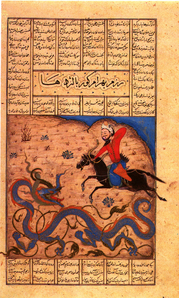 Bahram Gur's Combat with the Dragon. Shah-nama. Shiraz. Topkapı, Folio 206, verso of Hazine 1511 according to [1] ([2] says Hazine 1151)